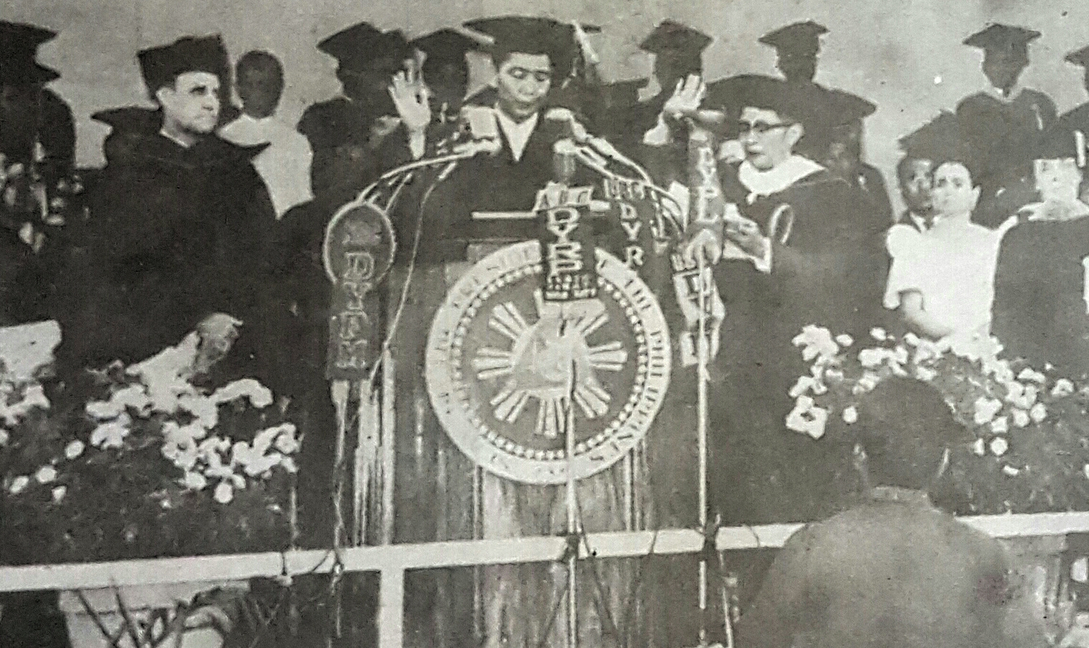 Ferdinand Marcos receiving his Doctor of Laws degree - Central Philippine University on April 21, 1967 after the investiture of the university's first Filipino president, Rex Drilon.